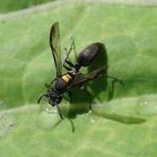 wasp camoatim